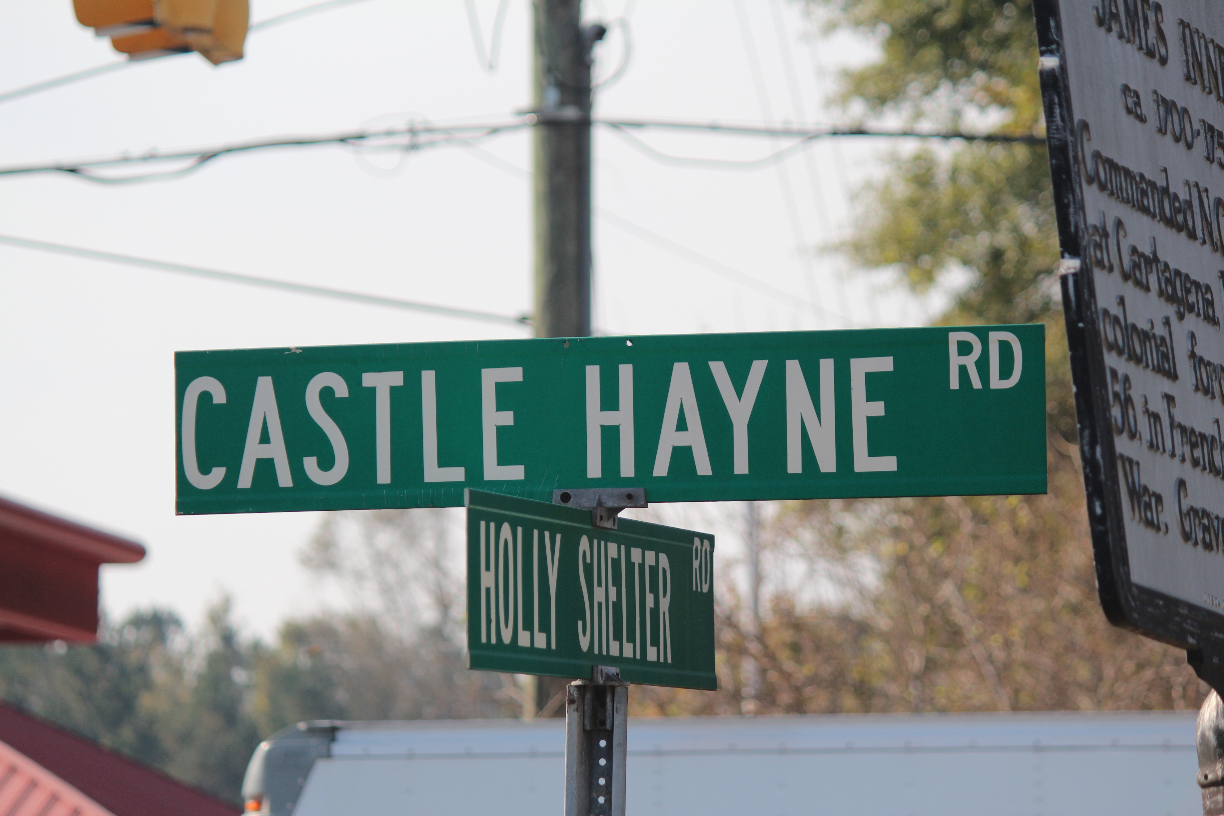 Sign for Castle Hayne Rd in the center of Castle Hayne, North Carolina.